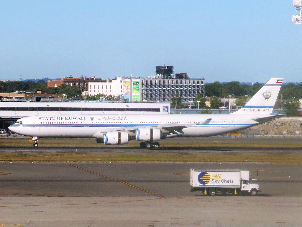 A State of Kuwait (operated by Kuwait Airways) Airbus A340-542, registered 9K-GBA, has touched down on Runway 31R at John F. Kennedy International Airport in New York City, arriving for the 2015 United Nations meetings.